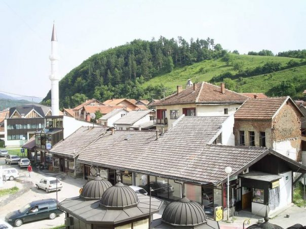 Old town of Gornji Vakuf in Central Bosnia